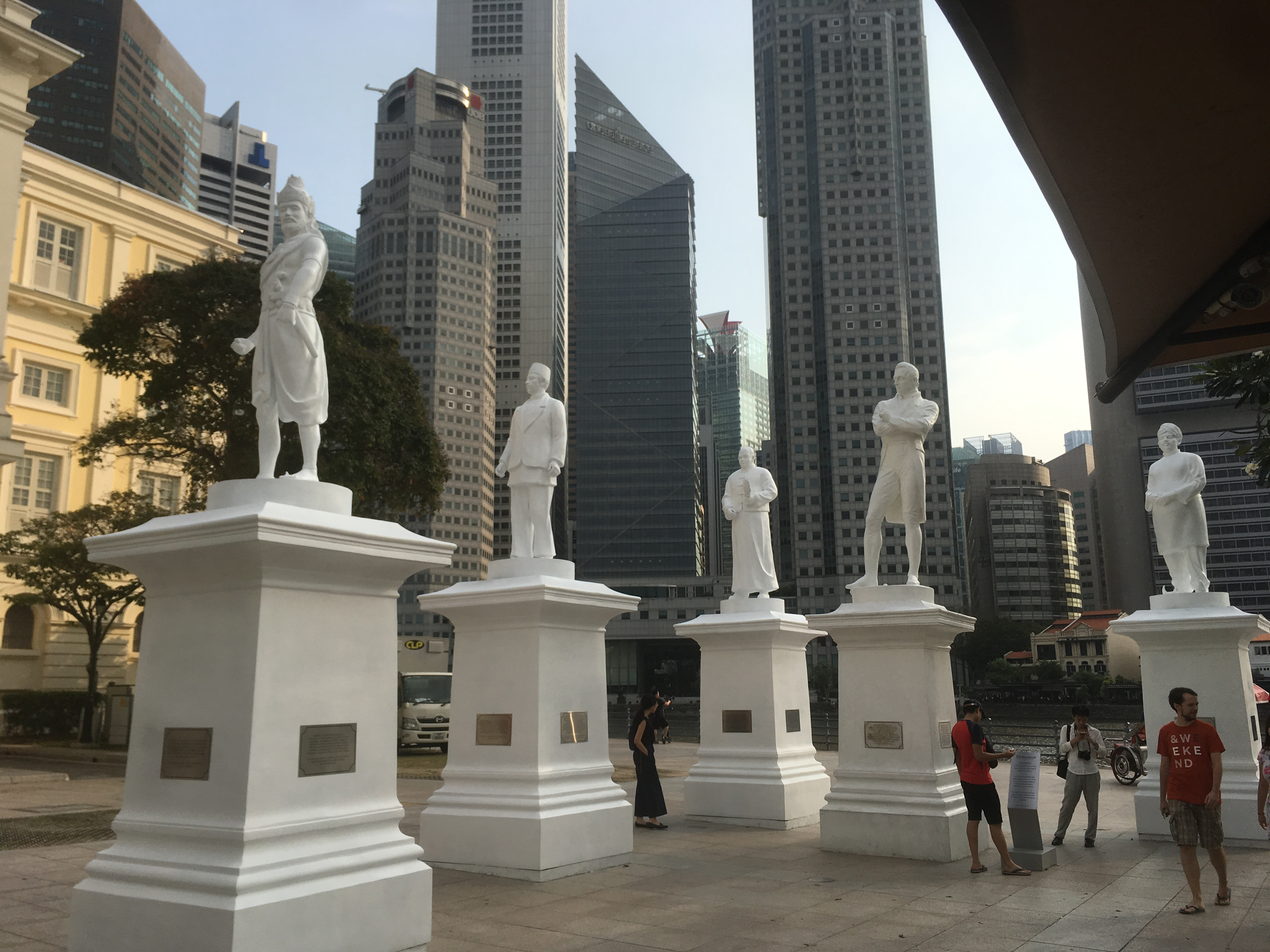 Statues of (from left to right) Sang Nila Utama, a pseudo-legendary Prince from Palembang who supposedly founded the Kingdom of Singapura, Munshi Abdullah, a Malay linguist in the employ of Sir Stamford Raffles who would come to be known as the "Father of Modern Malay Literature", Tan Tock Seng, a prominent Chinese entrepreneur and philanthropist, Sir Stamford Raffles, founder of the British colony of Singapore, and Naraina Pillai, a leader of the Indian community in the colony of Singapore and contributor to the Sri Mariamman Temple, Singapore. All statues save for that of Sir Stamford Raffles were erected at the Raffles Landing Site as part of events commemorating the bicentennial of Singapore's colonisation by the British East India Company.